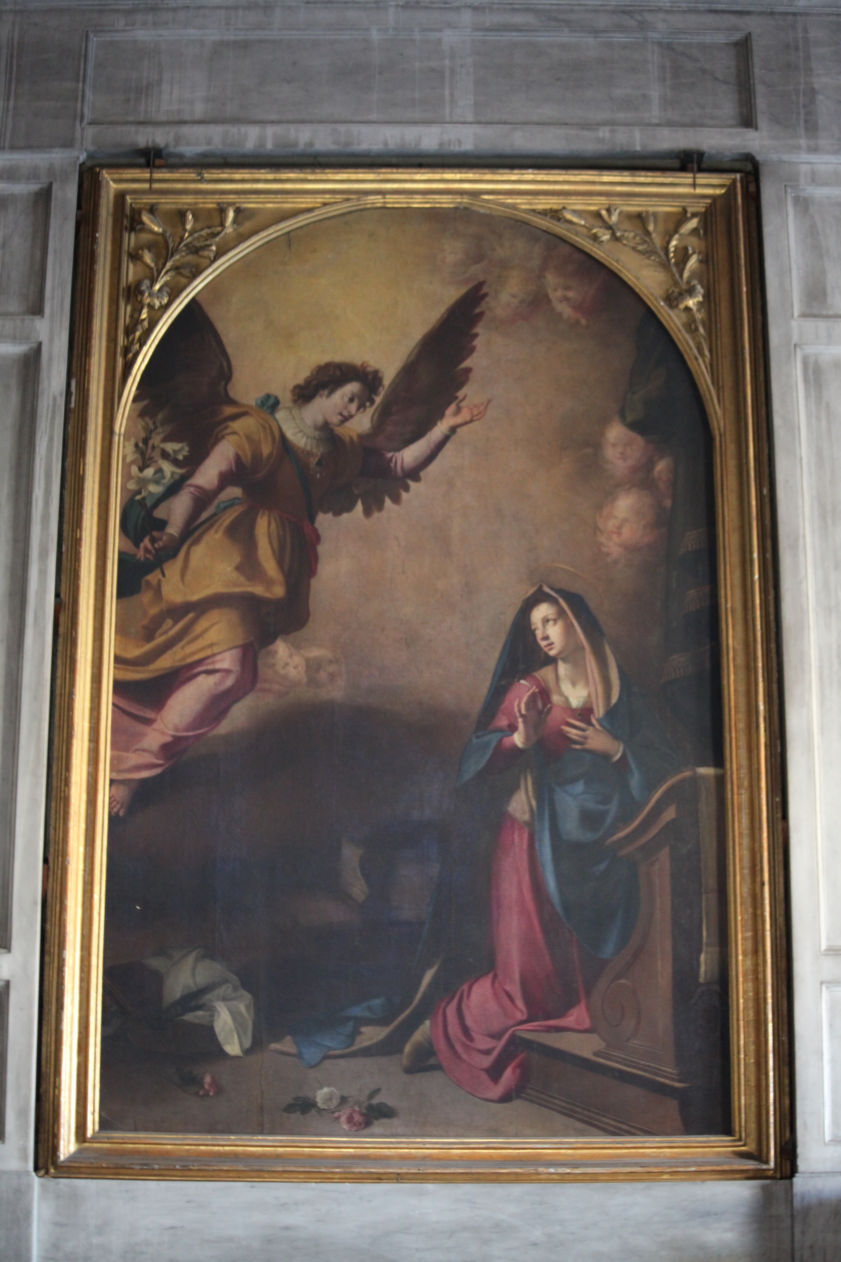 Annunciazione di Jacopo Chimenti detto L'Empoli